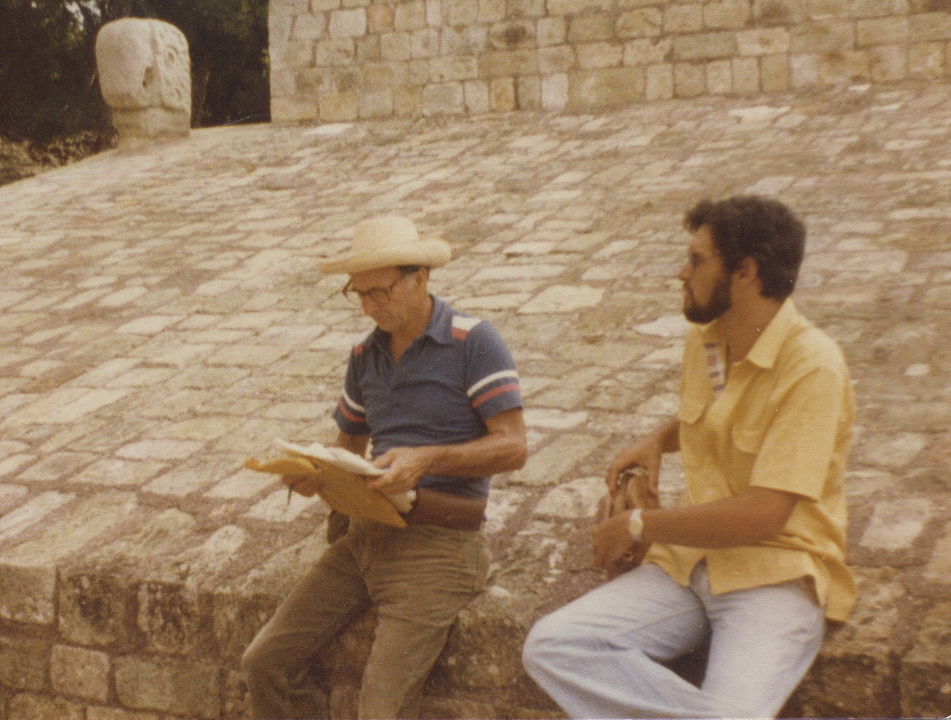 Mayanists Charles Lacombe (left) and Ricardo Agurcia at the great ballcourt, Copan.